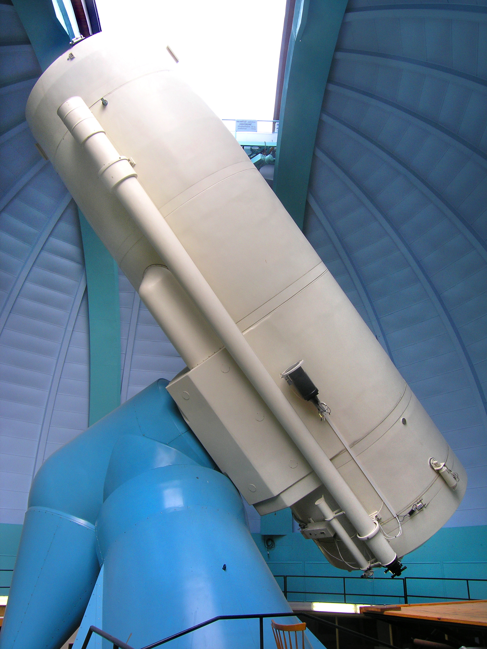 The biggest Czech telescope – 2-m reflector from the Czech Astronomical Institute in Ondřejov